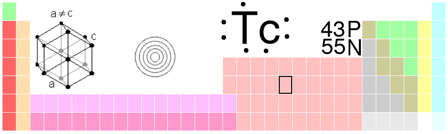 Periodic Table: Technetium